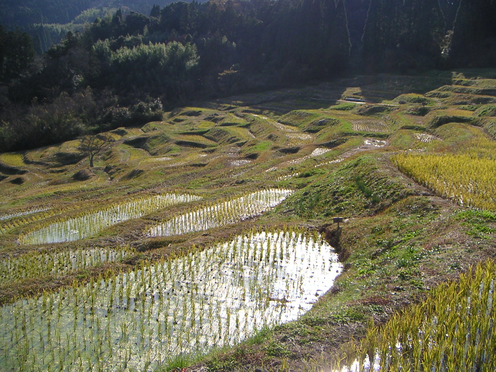 Oyama rice terraces in Kamogawa,Chiba